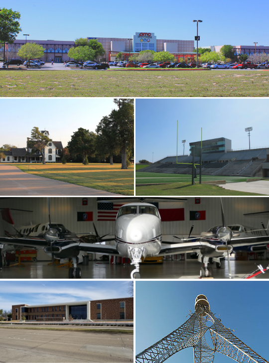 This is a collage of the suburban city of Mesquite, Texas. The images used in the file are: and